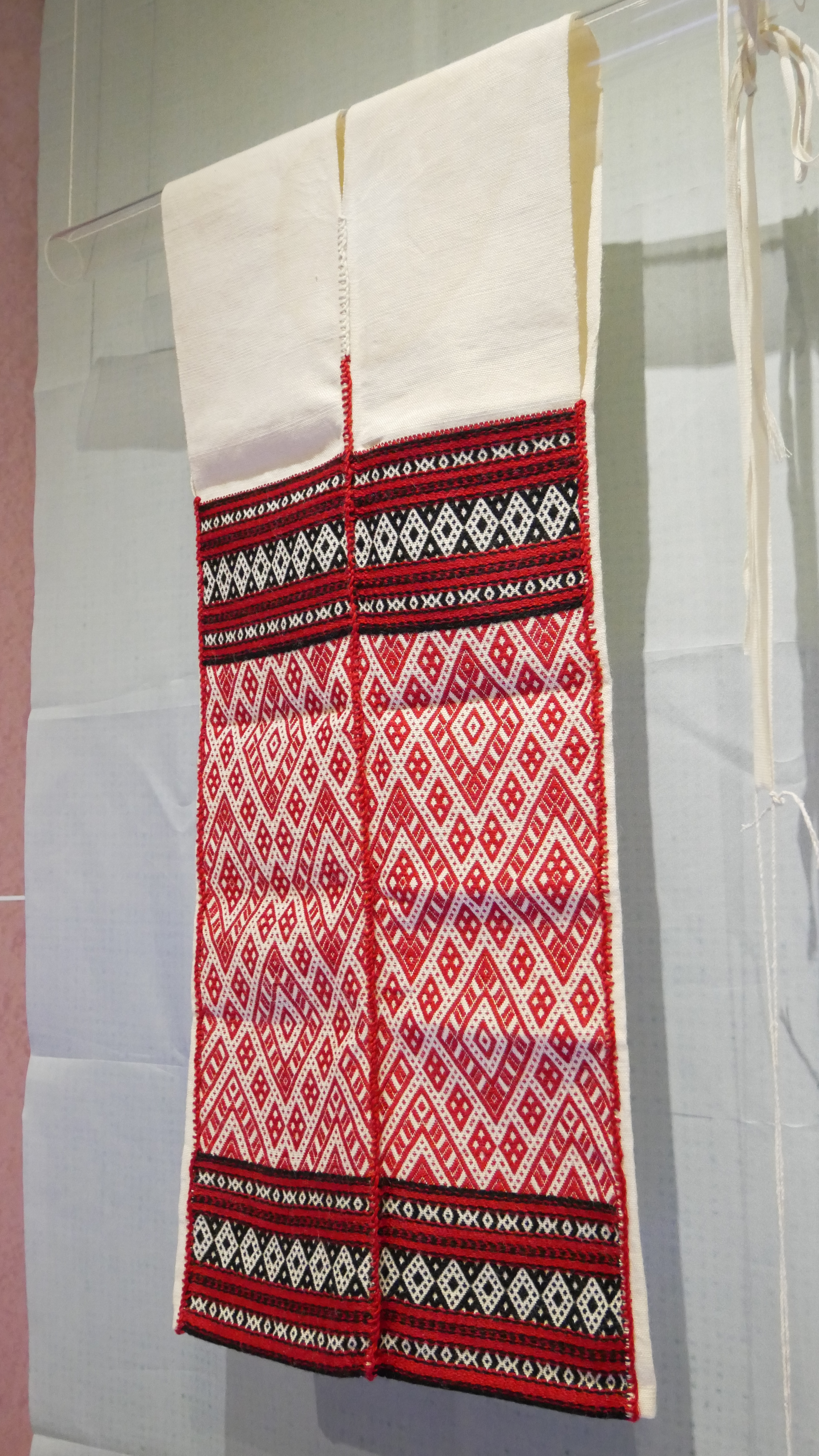 賽夏族東河社（新竹州竹南郡蕃地ワロ社）無袖長衣（複製品，原件昭和五年（1930年）7月1日入藏臺北帝國大學），臺北市大安區學府次分區學府里